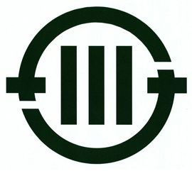 Namegawa Saitama chapter